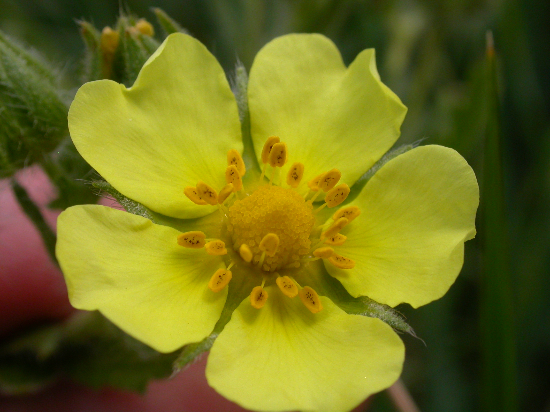 the pale yellow petals, lack of well developed basal leaves, well developed stem leaves, and hirsute stems are characteristic of this species